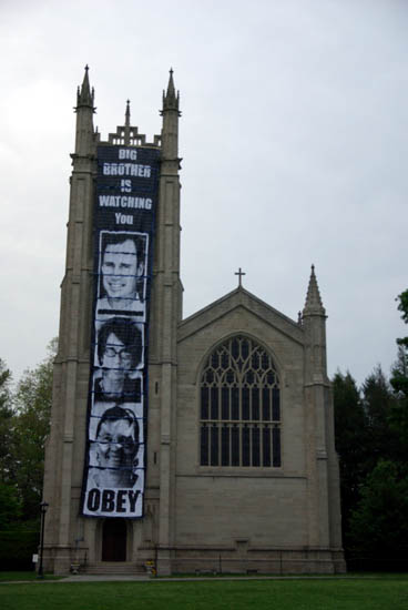 The World's Largest Known Rasterbation. St. John's Chapel, Groton School, Groton, Massachusetts, USA. Architect Henry Vaughan.